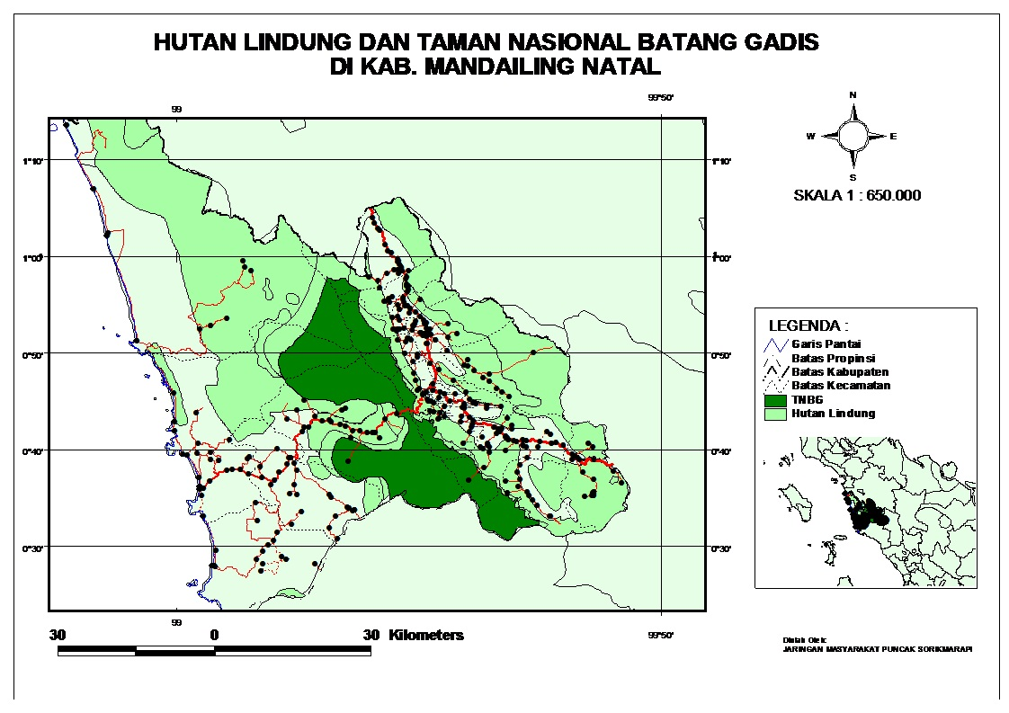 Batang Gadis National Park (TNBG) is a national park in the district of Mandailing Natal (Madina), North Sumatra, is located at 99 ° 12 '45 "E and 99 ° 47' 10" and 0 ° 27 '15 "up to 1 ° 01 '57 "N and the administration of the region surrounded by 68 villages in 13 districts in Mandailing Natal. Park's name originated from the name of the main river that flows and splitting Madina district, Sungai Batang Gadis.